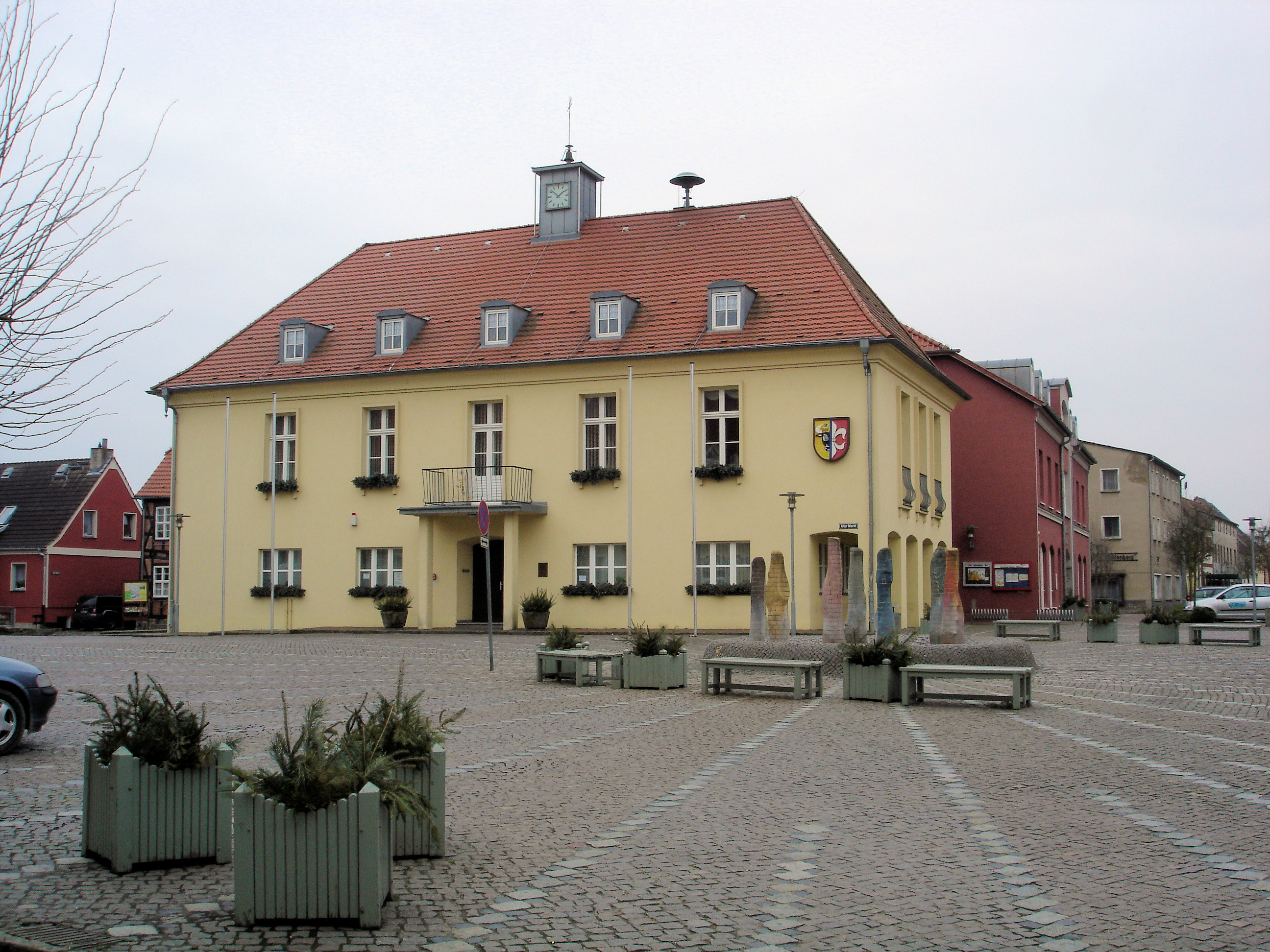 Townhall in Tessin (Mecklenburg-Western Pomerania)